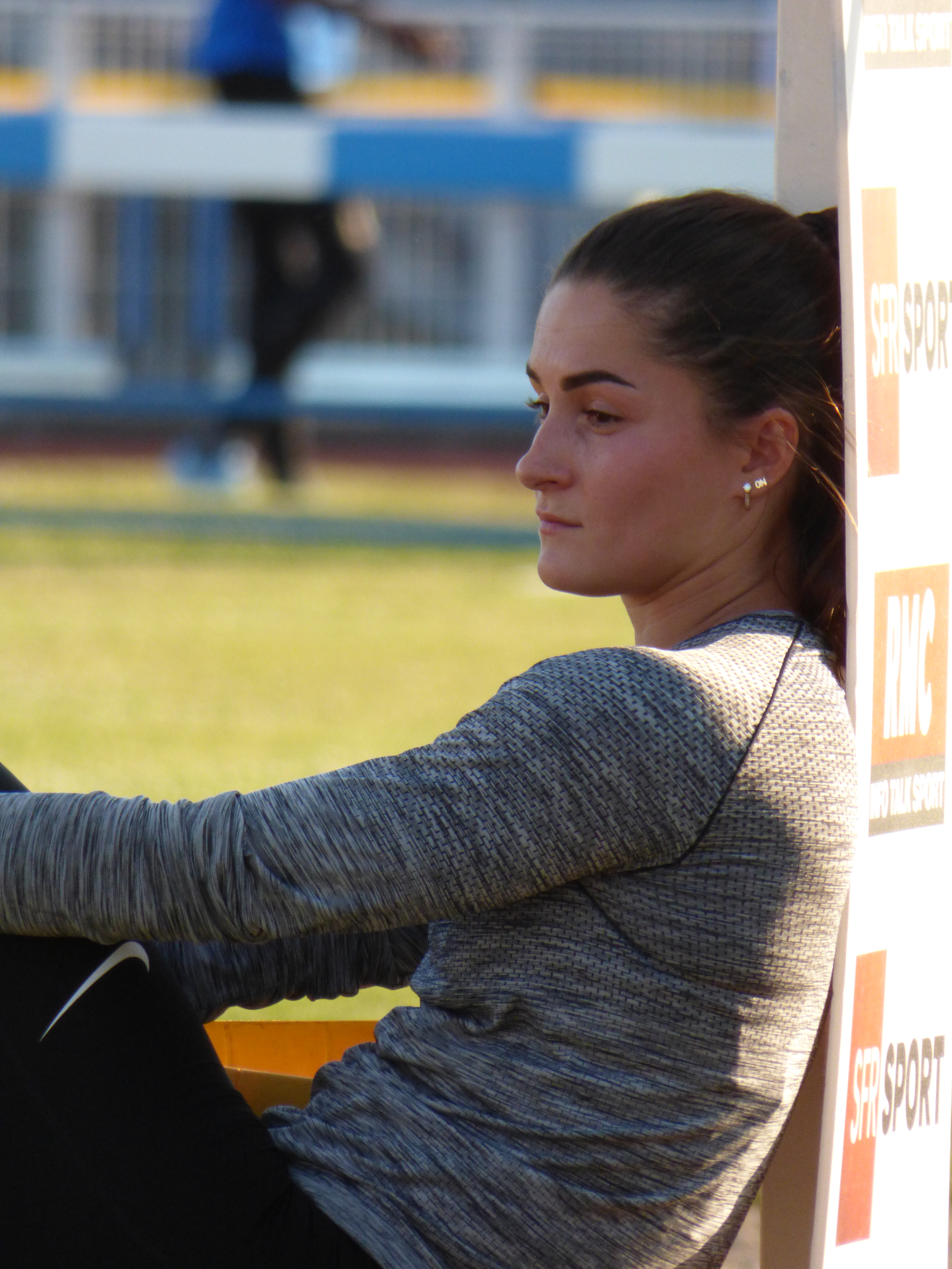 Nancy juin 2018 Meeting D'athlétisme